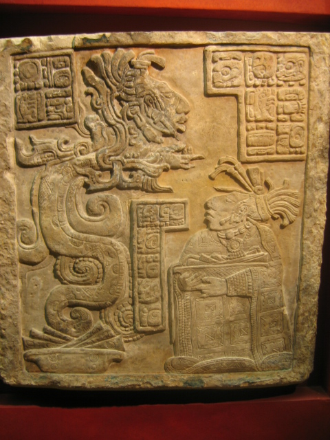 British Museum, London : Lintel 15, Structure 23, Yaxchilan. A drawing of the vision serpent can be seen at Image:YaxchilanDivineSerpent.jpg